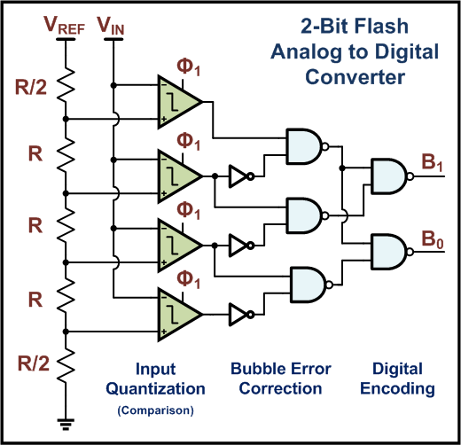 This is a schematic of a Flash Analog to Digital Converter with Bubble Error Correction